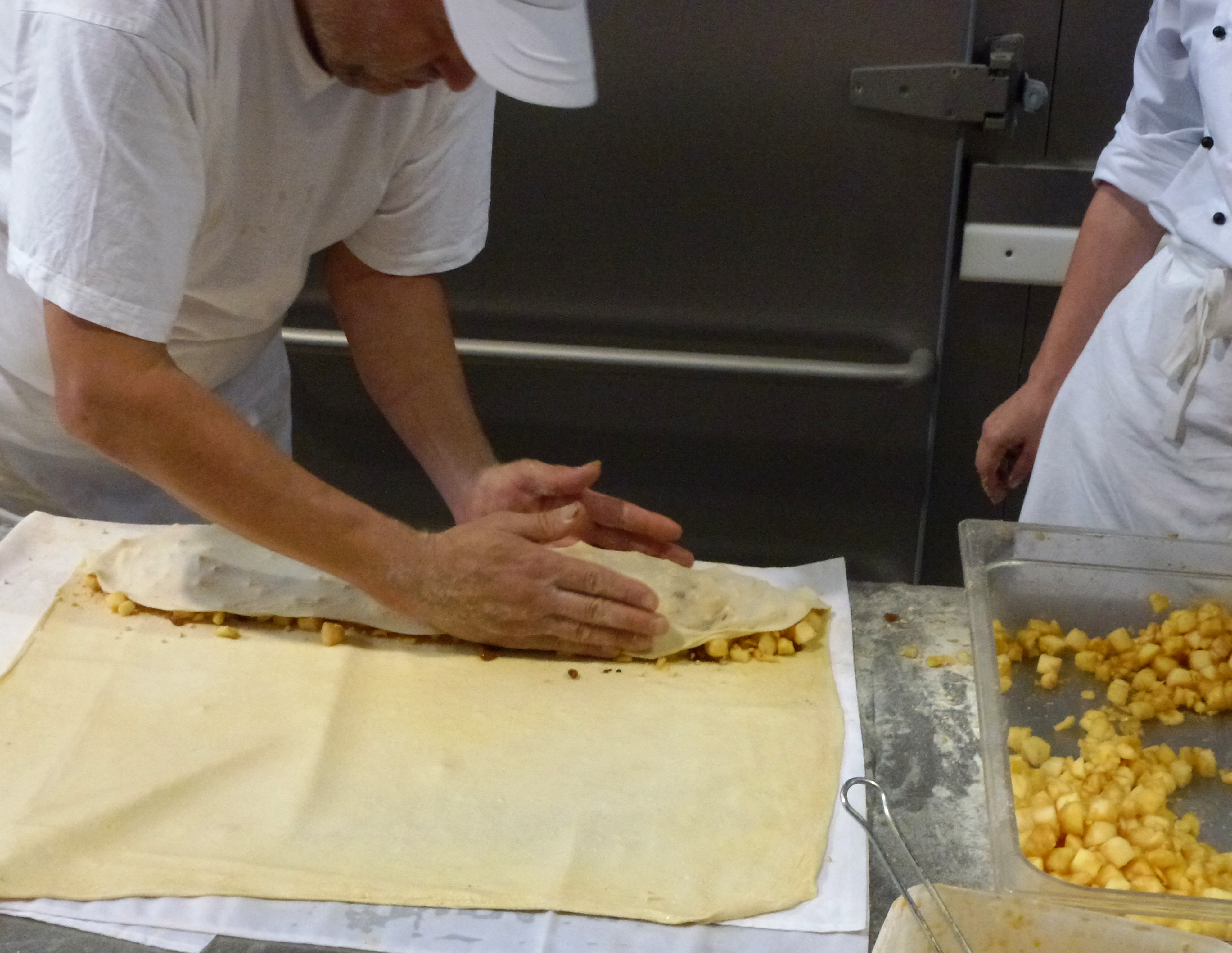 Apple strudel during preparation in bakery